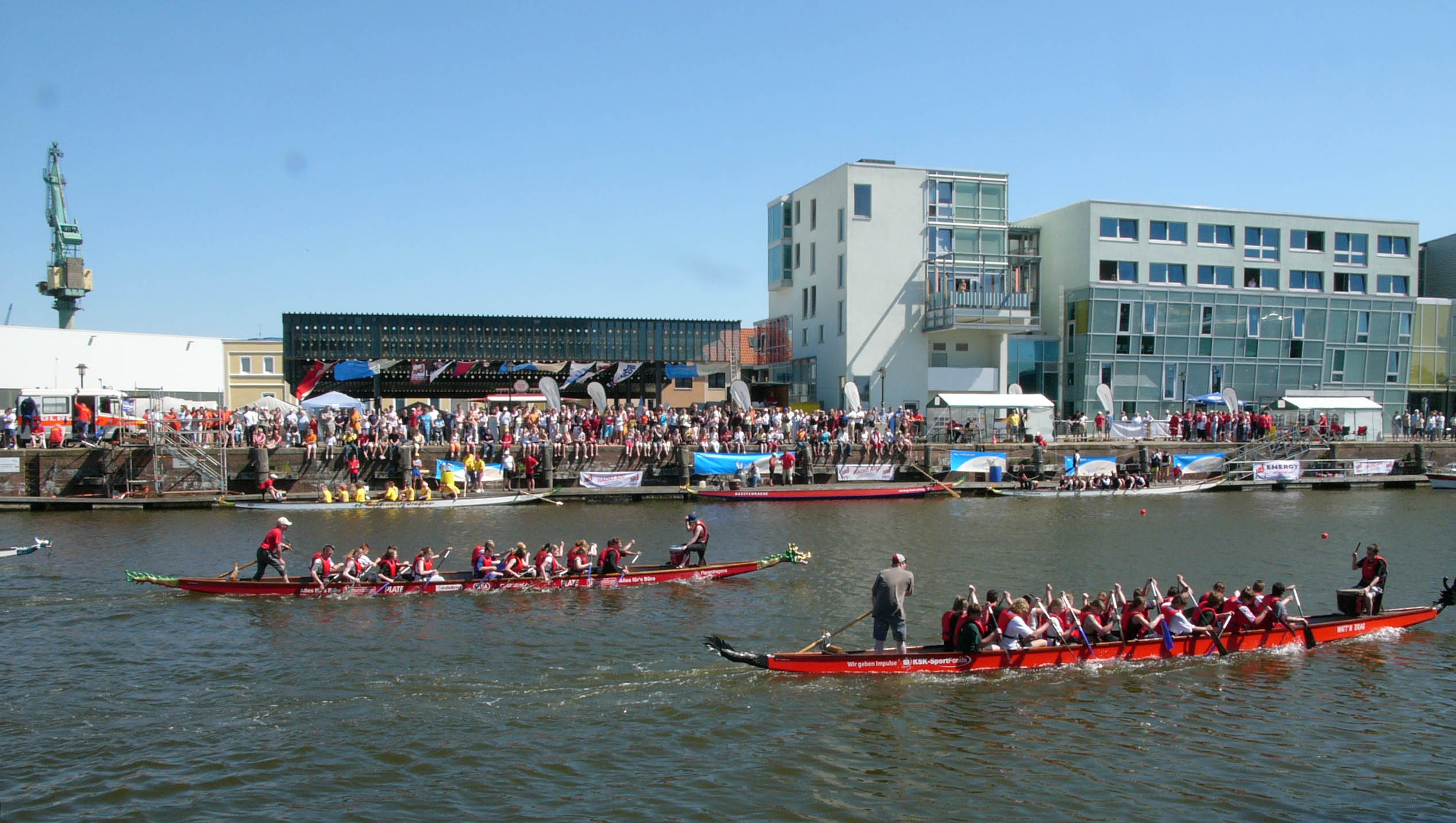 Dragon boat Cup (1852 m = 1 nautical mile) in the fish harbour of Bremerhaven, Germany